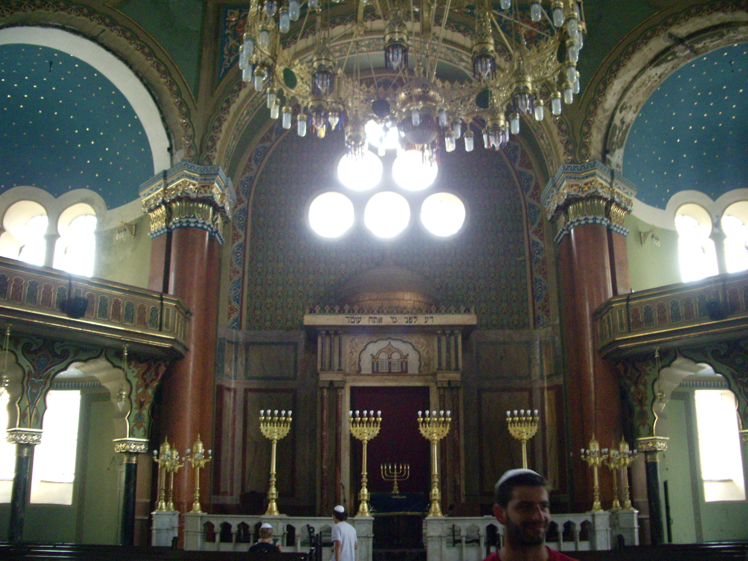 Inside the Synagogue